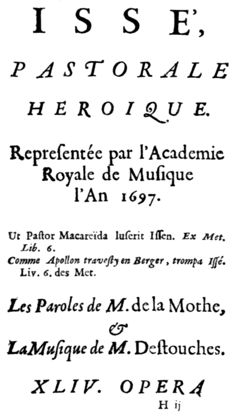 André Cardinal Destouches - Issé - title page of the libretto, Paris 1703